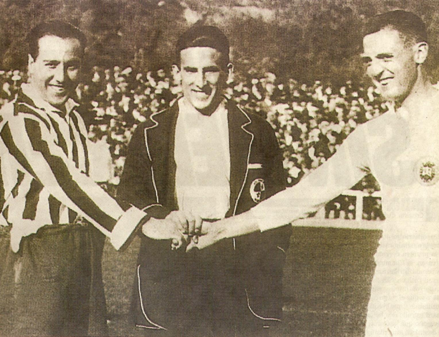 Photo for the media on a 1922 Madrid's derby. Referee and players Pololo (Atlético de Madrid) and Santiago Bernabéu (Real Madrid)